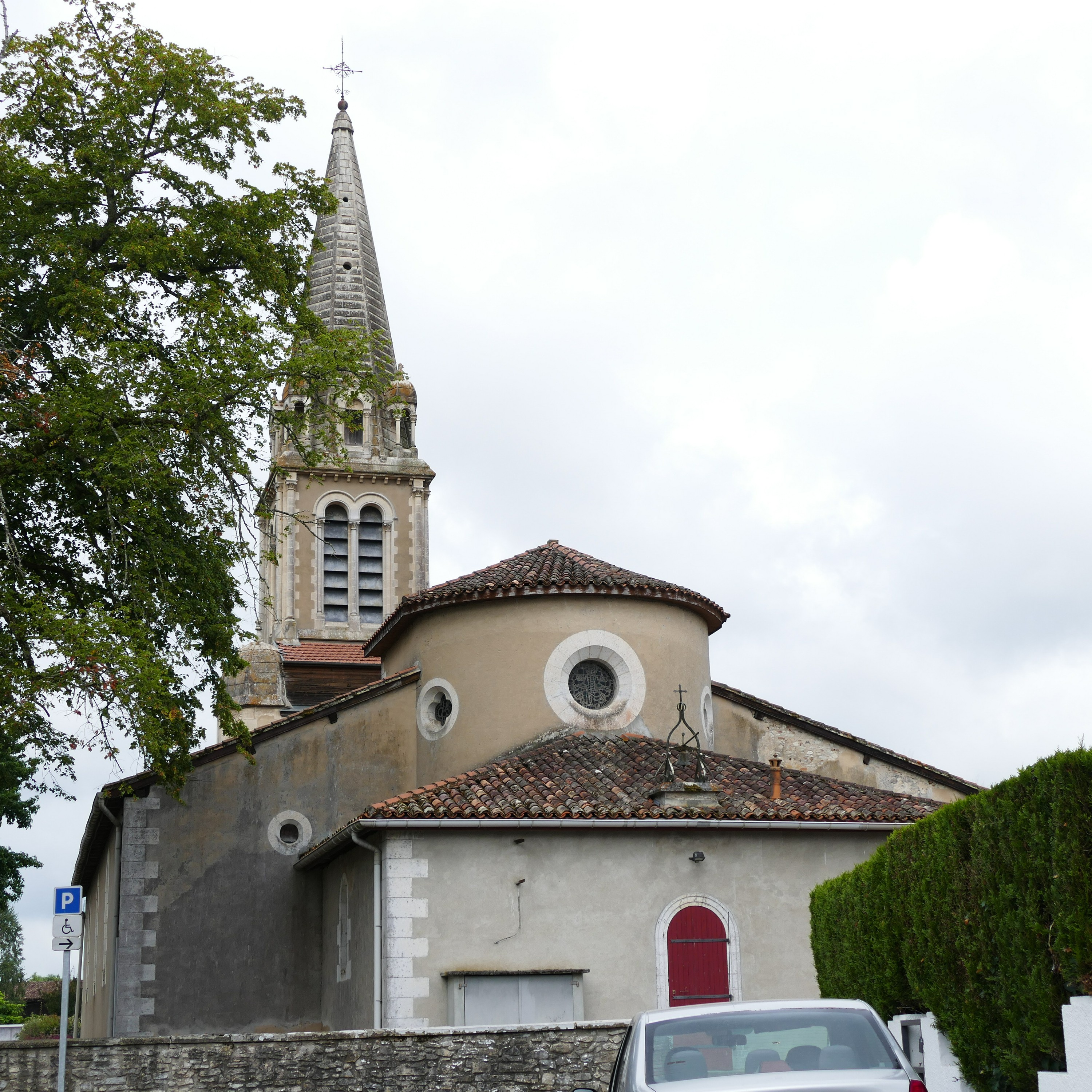 Saint-Laurent's church in Téthieu (Landes, Aquitaine, France).